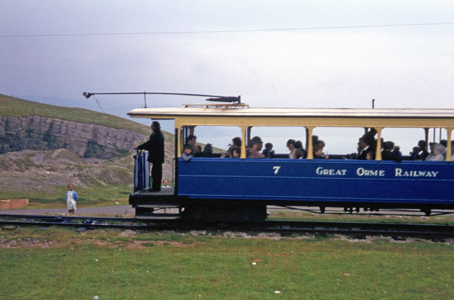 Great Orme Railway - upper section The blue and cream livery seen here was applied in 1967. A detailed history of the Great Orme Tramway can be found here